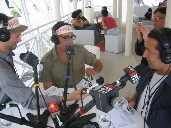 "Biennalist in interview with PS1 MOMA radio Tony Guerrero" Colonel and Copyflex